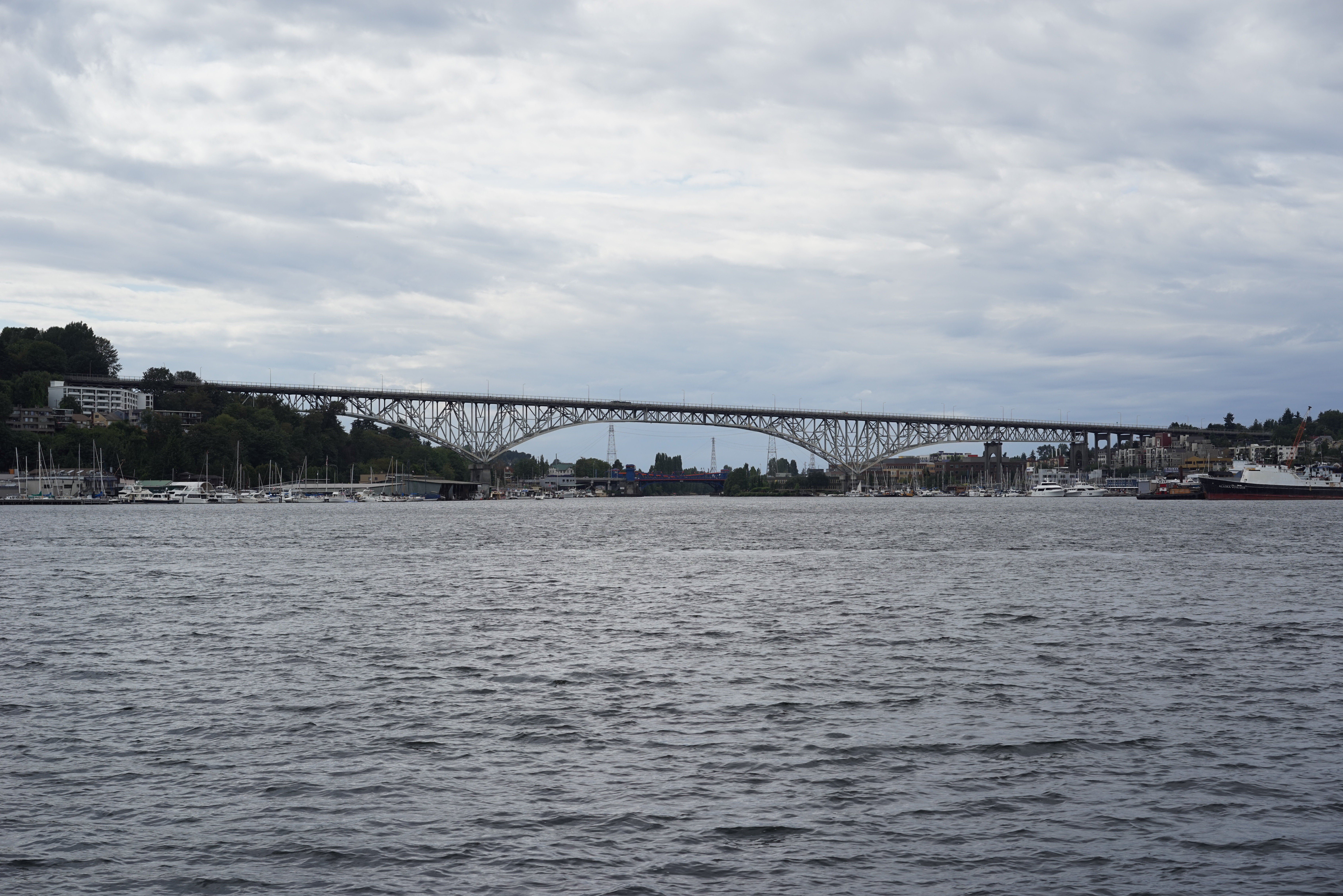 George Washington Memorial Bridge as seen from the east in Lake Union.